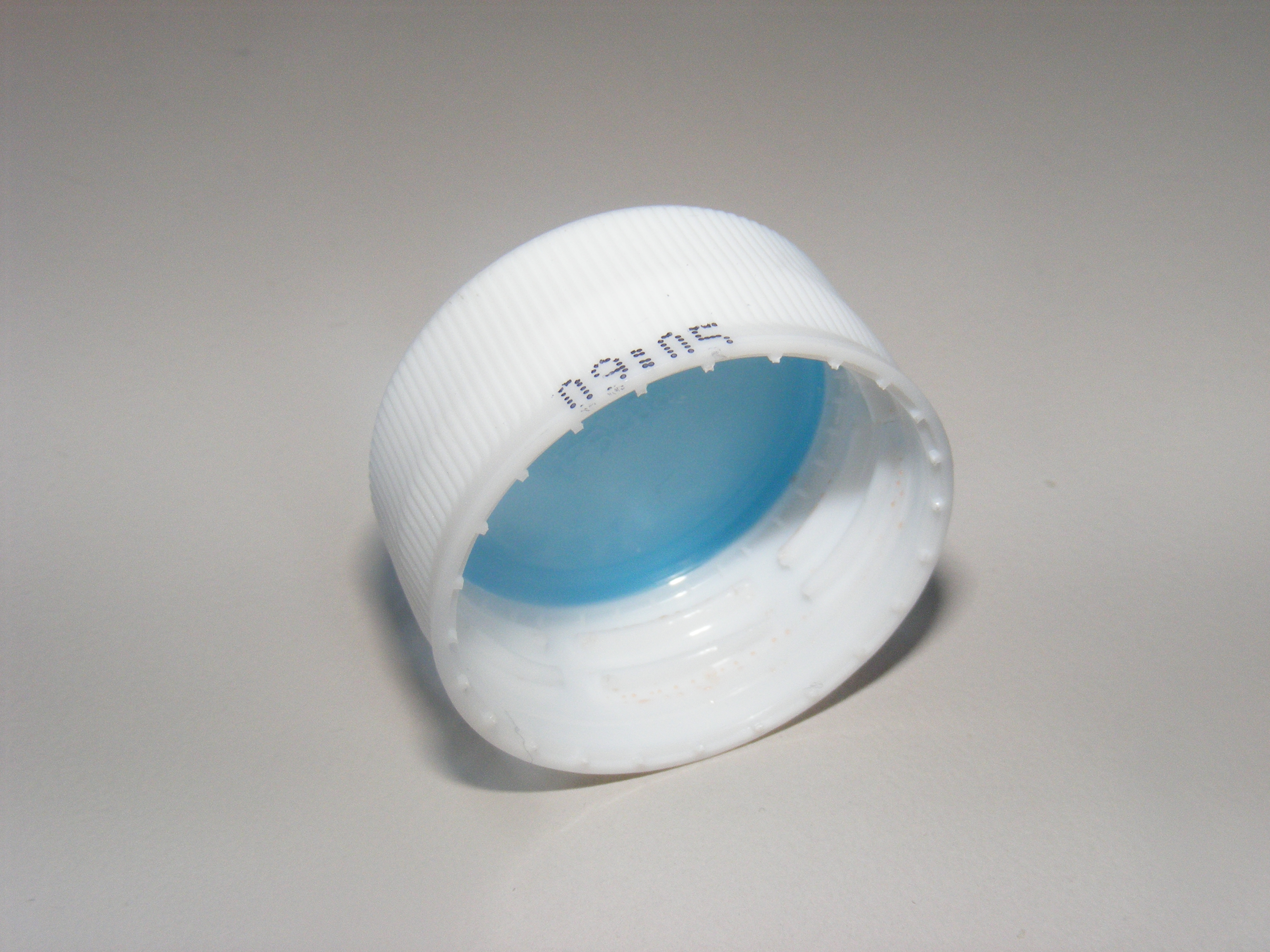 A plastic soda bottle cap.